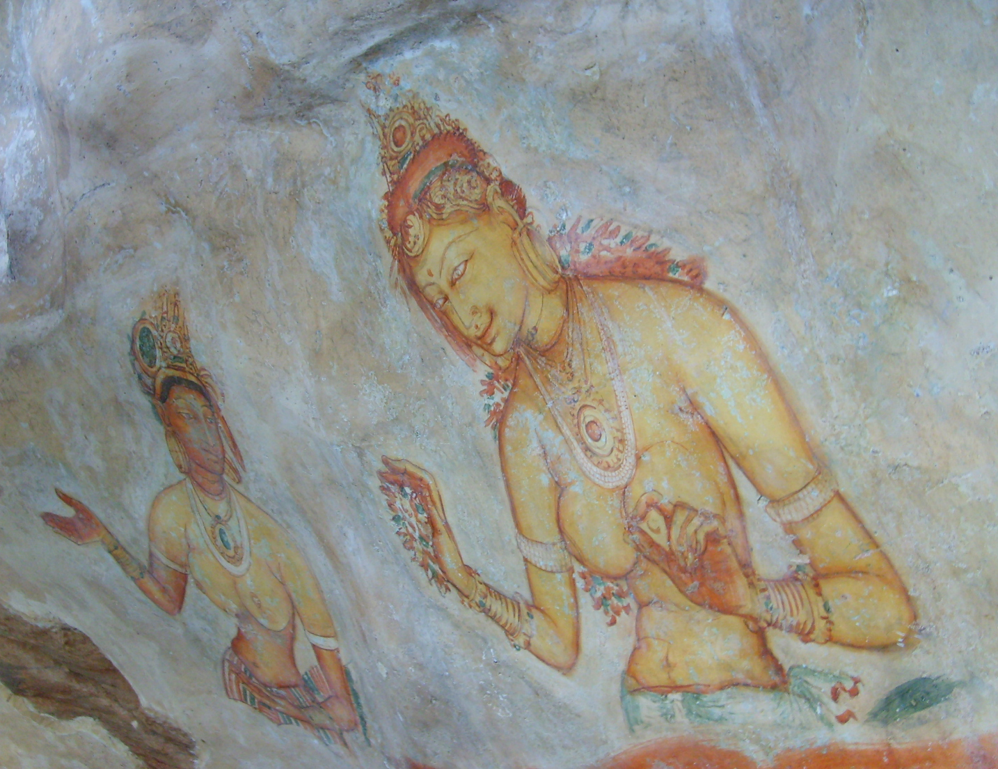 A fresco of Sigiriya depicting two apsaras carrying flowers.